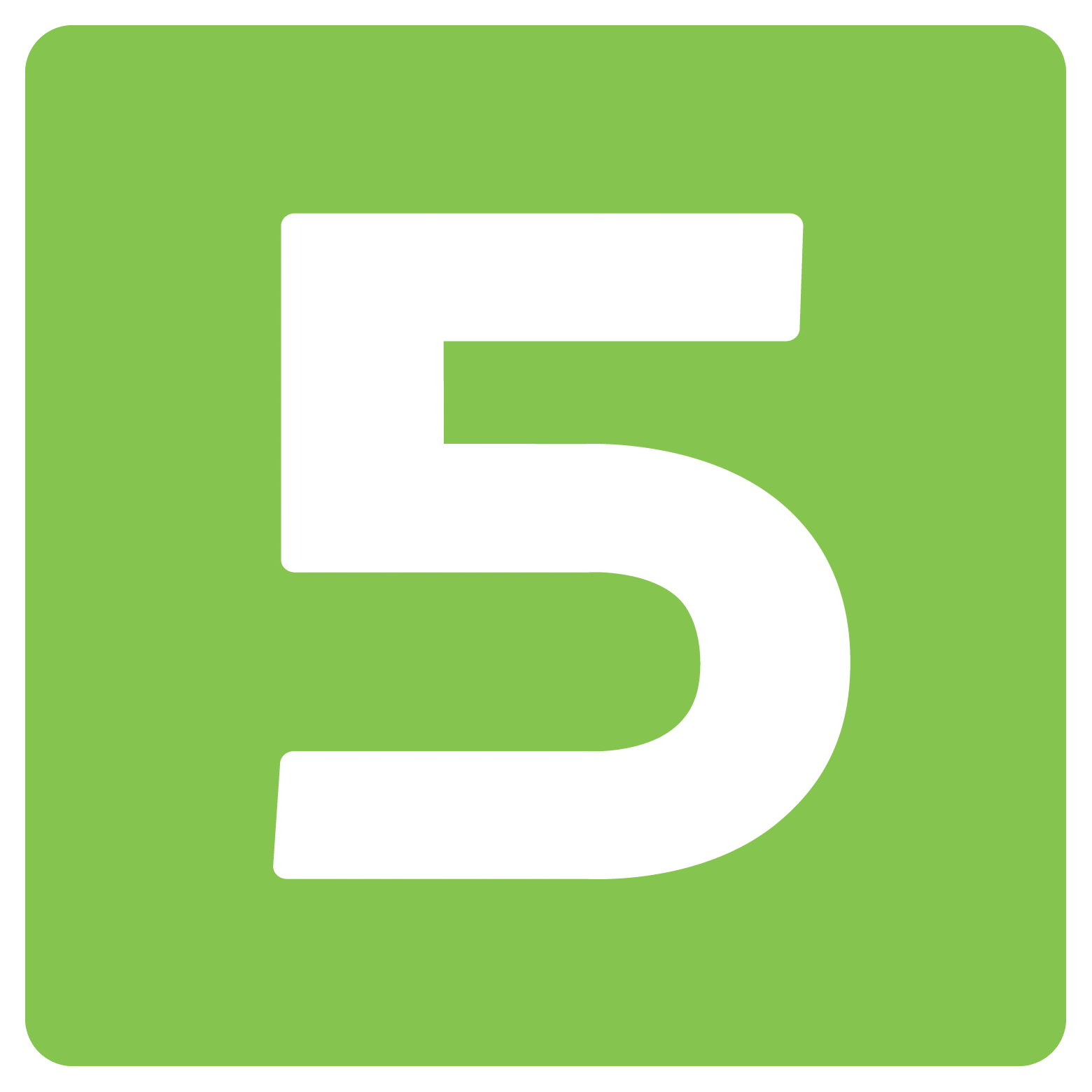 Logo of the Dutch commercial television channel NET 5